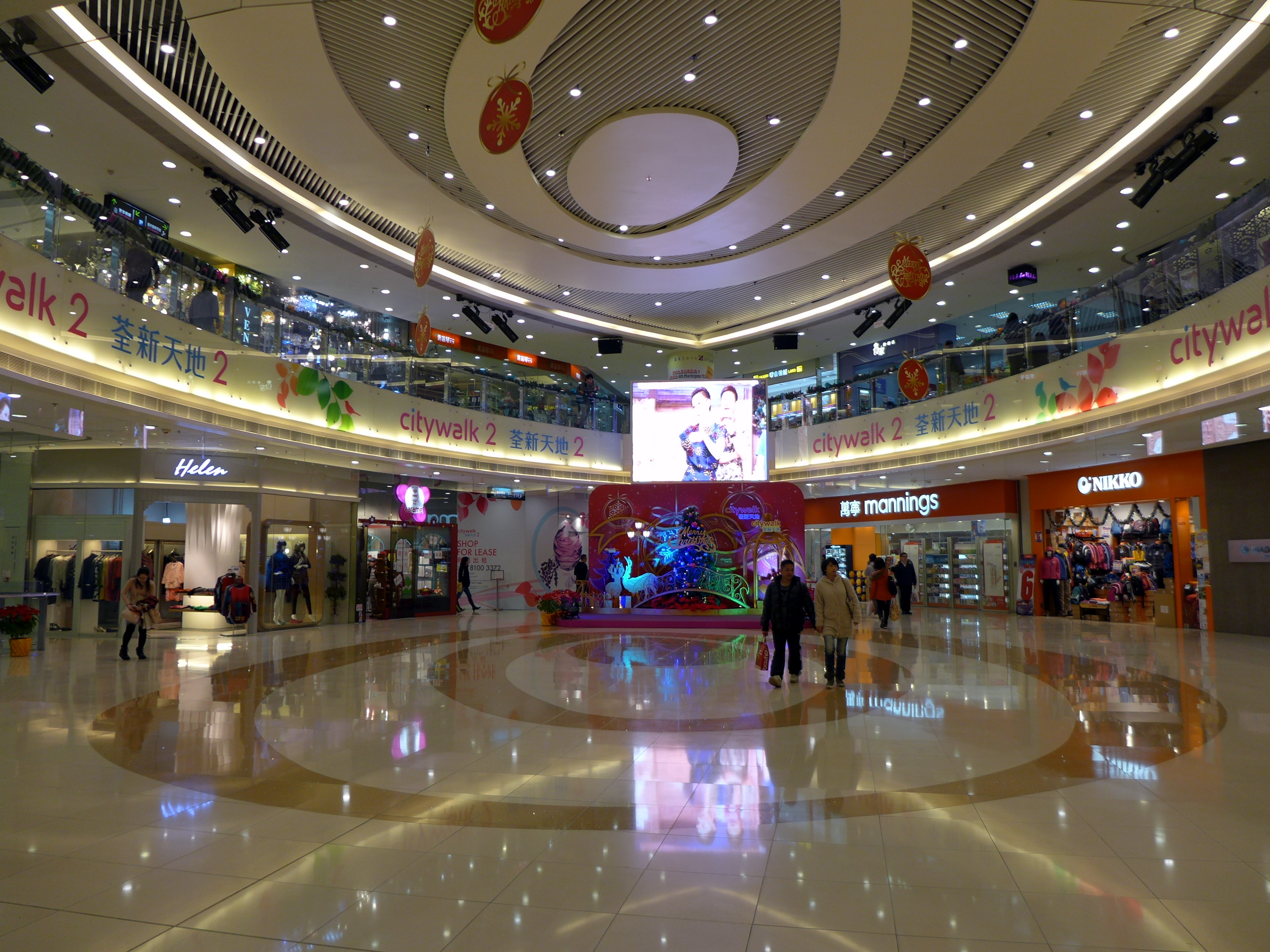 Citywalk Phase 2 Main Void